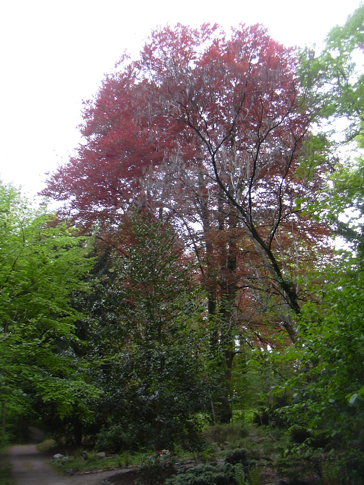 Alzenau-Wasserlos, castle park with historic trees